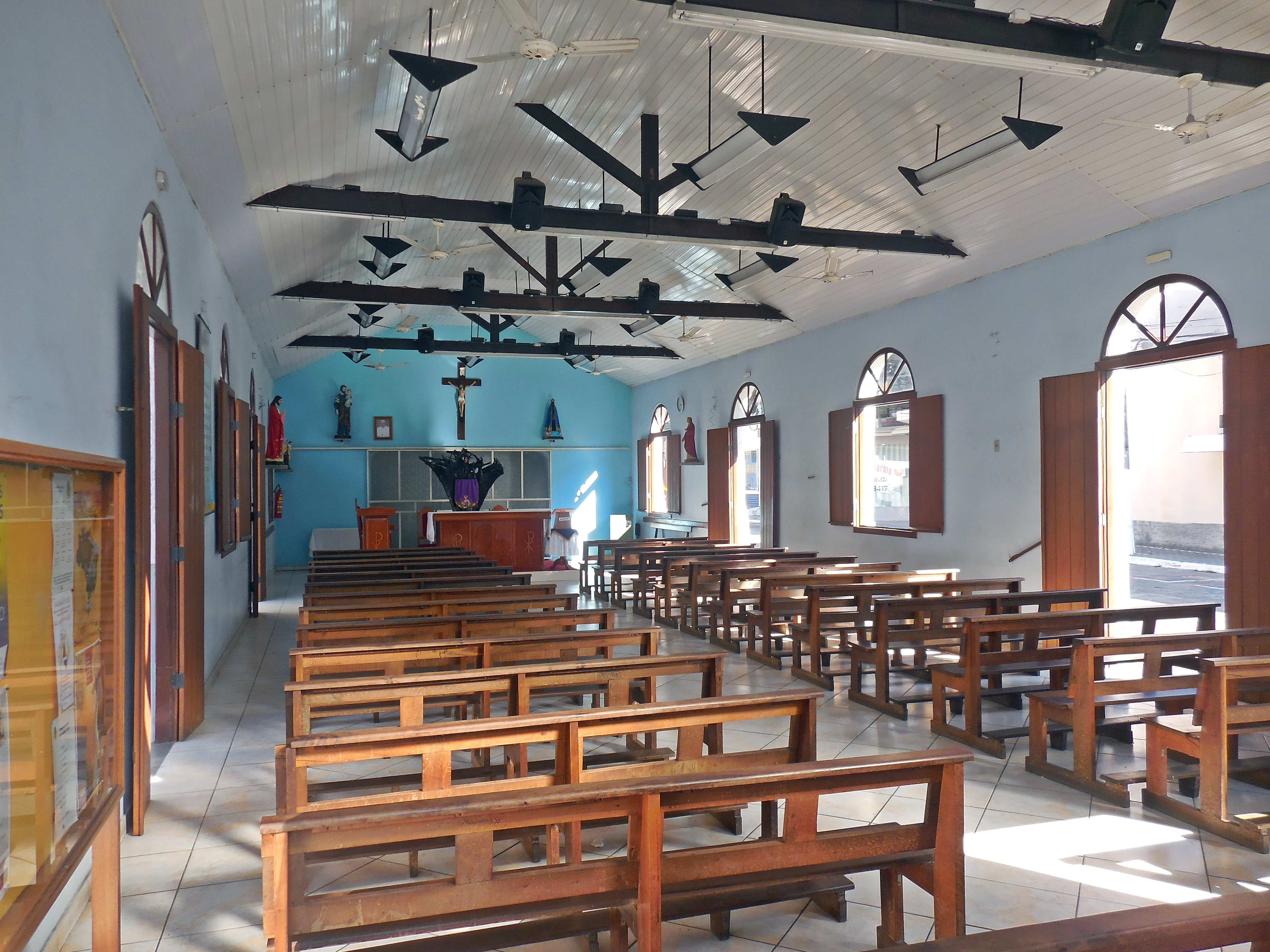 Interior of the Saint Joseph the Worker church of Acesita, in Timóteo, Minas Gerais, Brazil.